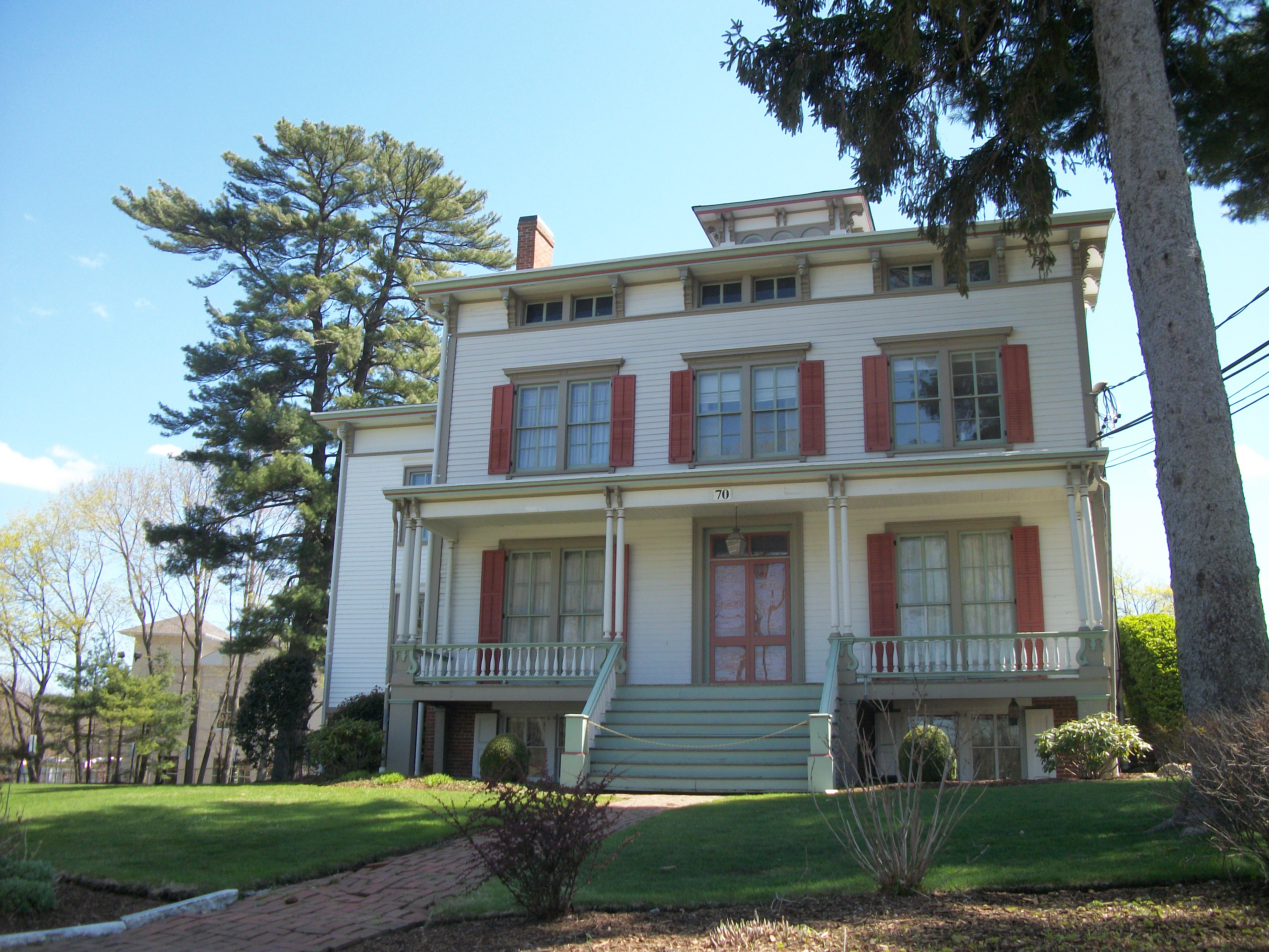 The historic Charles Woodhull House on NYS Route 25A in Huntington, New York. Now a small medical office.